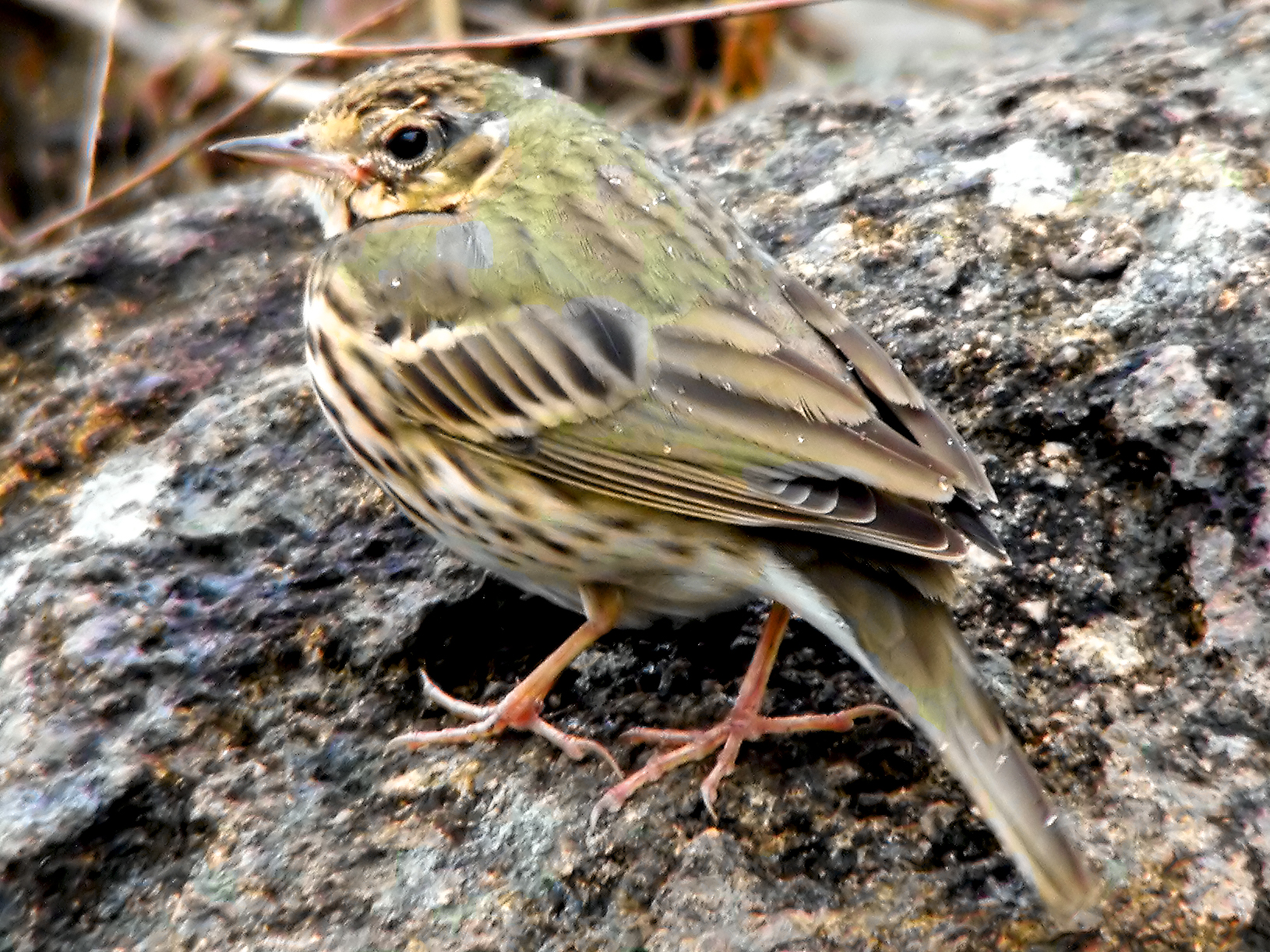 Olive-backed Pipit Anthus hodgsoni, Hong Kong, China